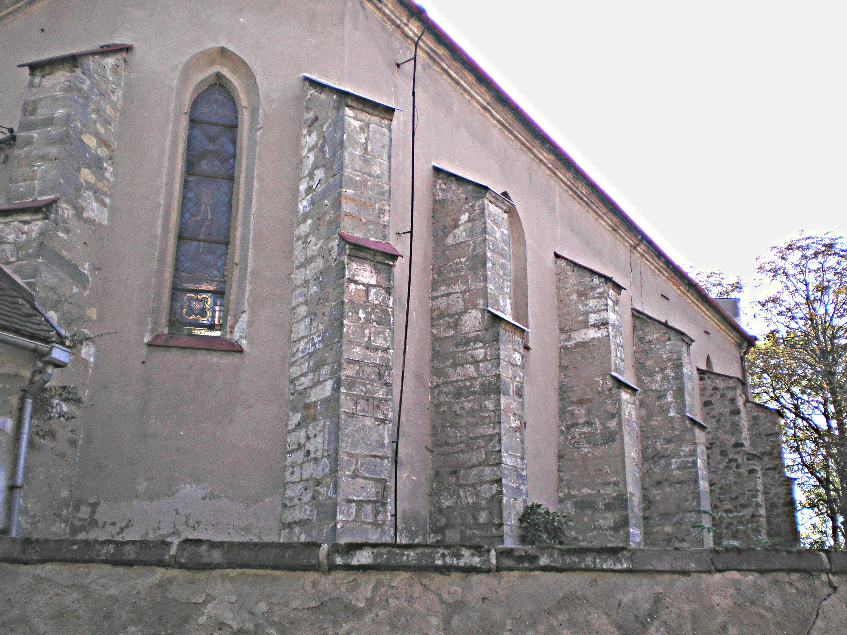 Counterforts of church in Jezbořice